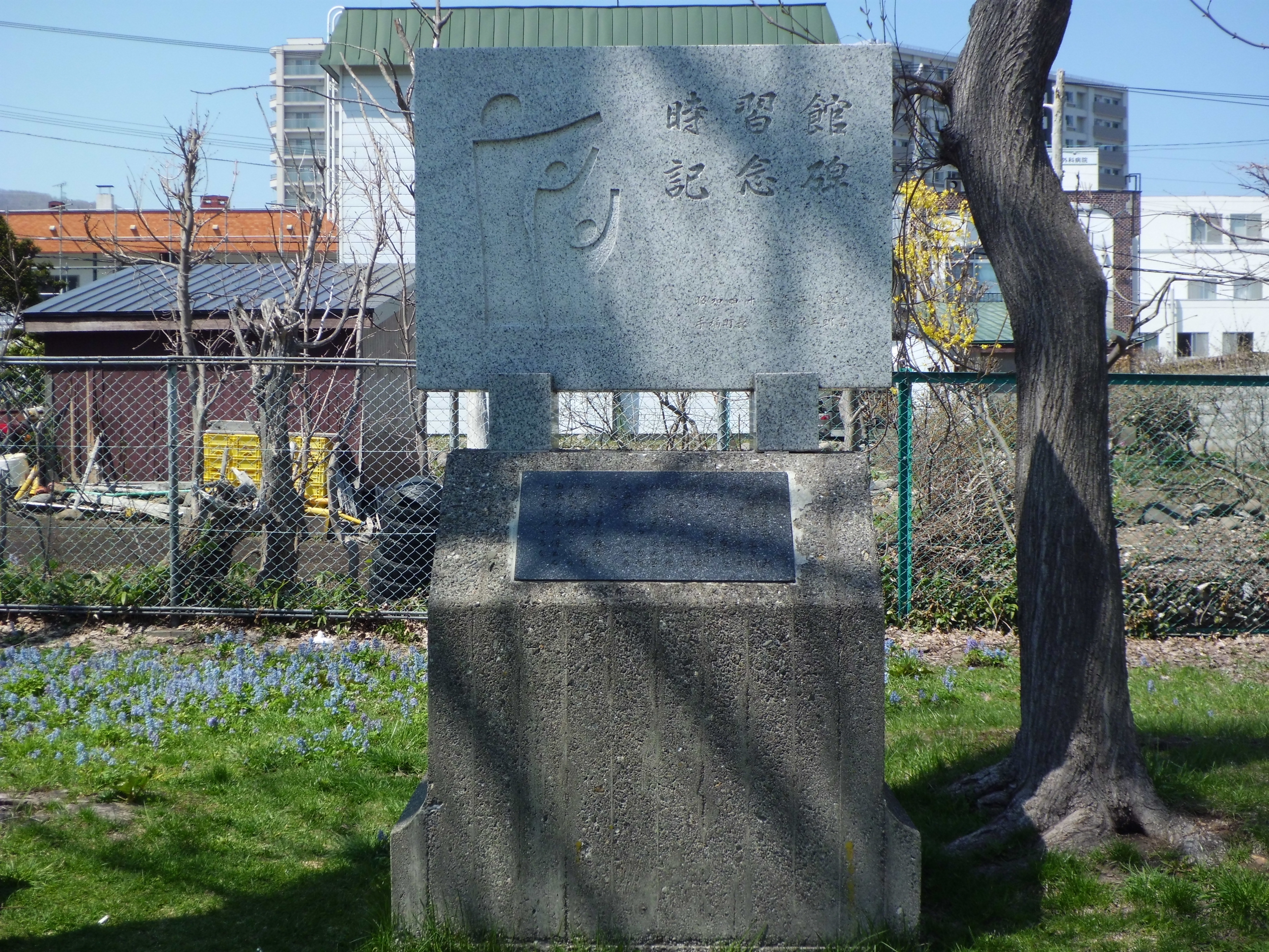 Monument to Jishu-kan